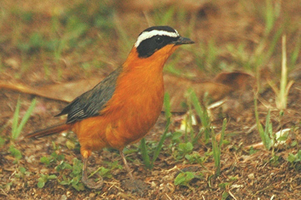 Uganda White-browed Robin Chat (Cossypha heuglini) Mbweya QE NP Dec 2005